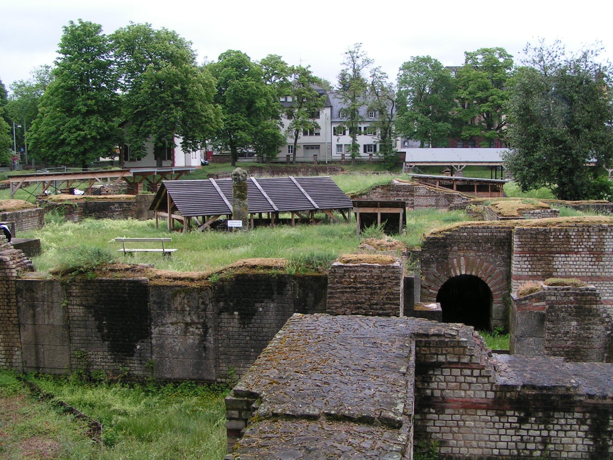 Old romain therme "Barbarathermen" in Trier, Germany